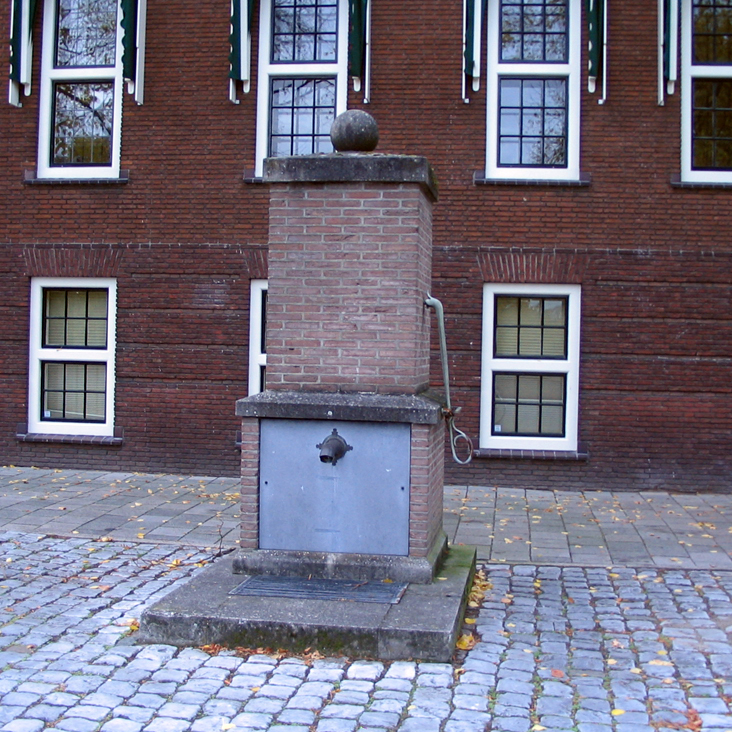 Water pump by the council house in Dinther, made by the unemployed.